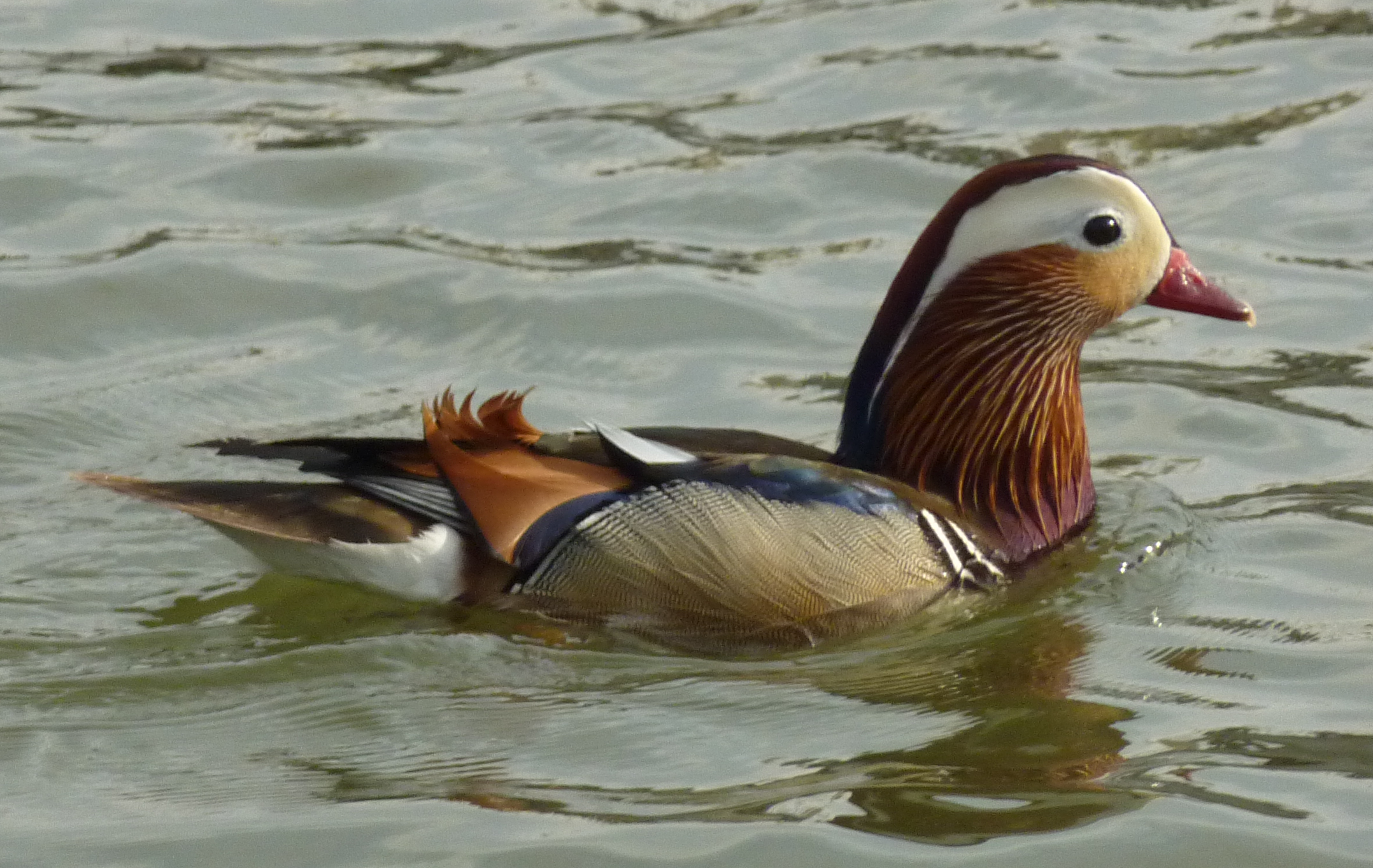 A mandarin duck at Beihai park, Beijing, China